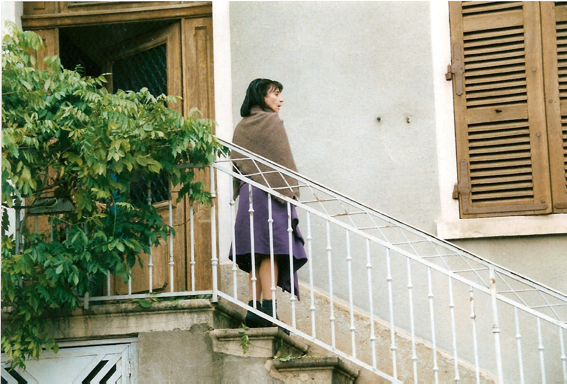 Ariane Ascaride on the set of A Common Thread in Fleurie (Rhône, France).